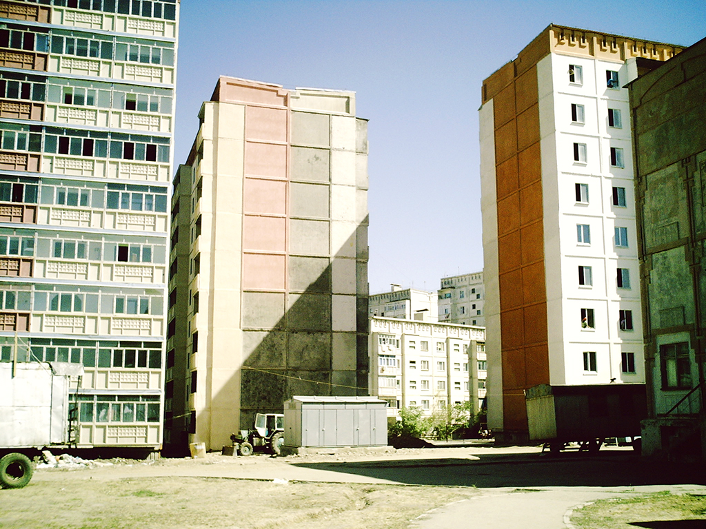 multi-story apartment buildings in Bishkeks Microrajon Джал